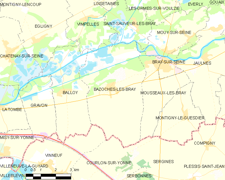 Map of French municipality Bazoches-lès-Bray